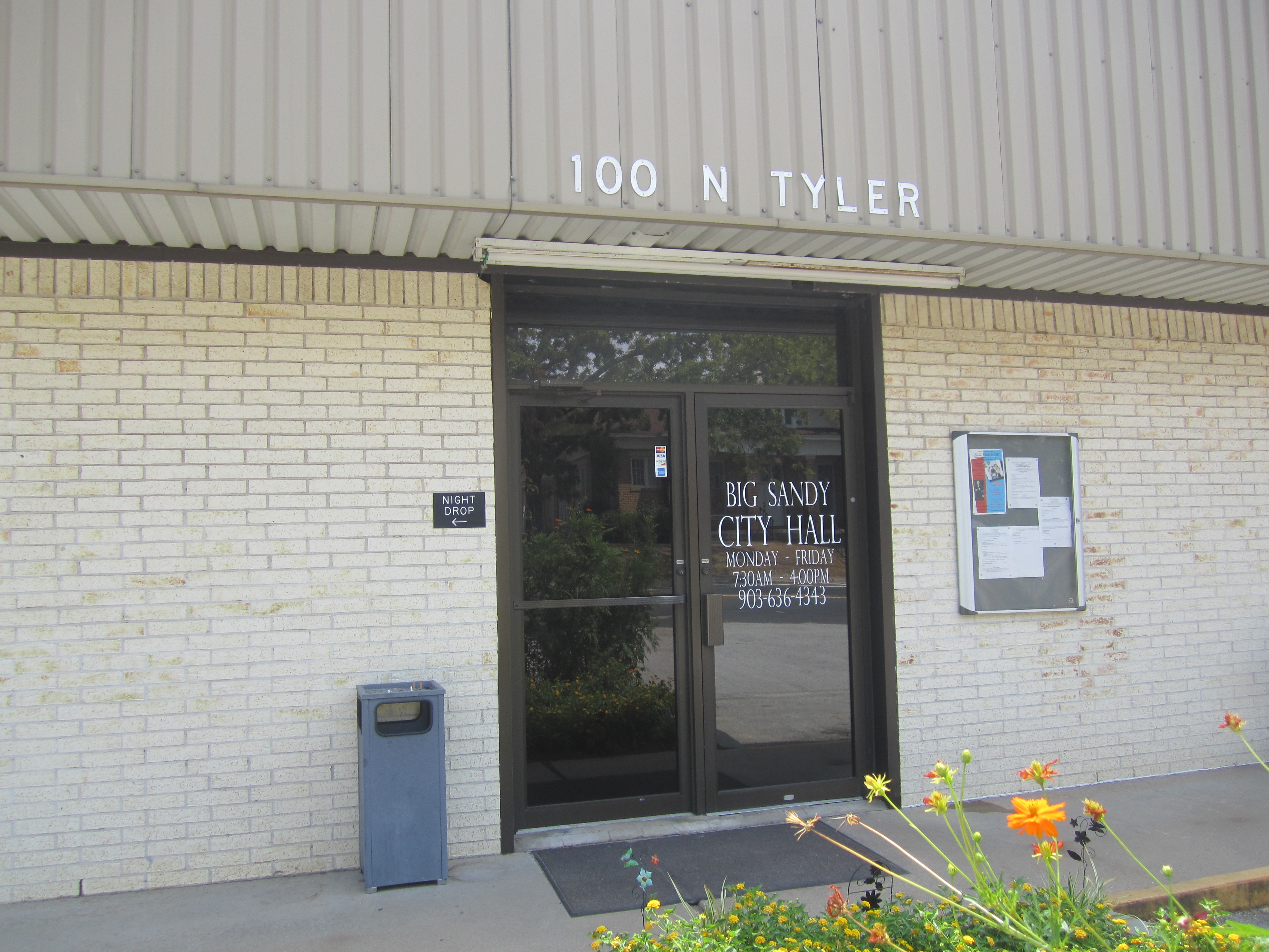 I took photo of Big Sandy City Hall, Big Sandy, TX, with Canon camera.